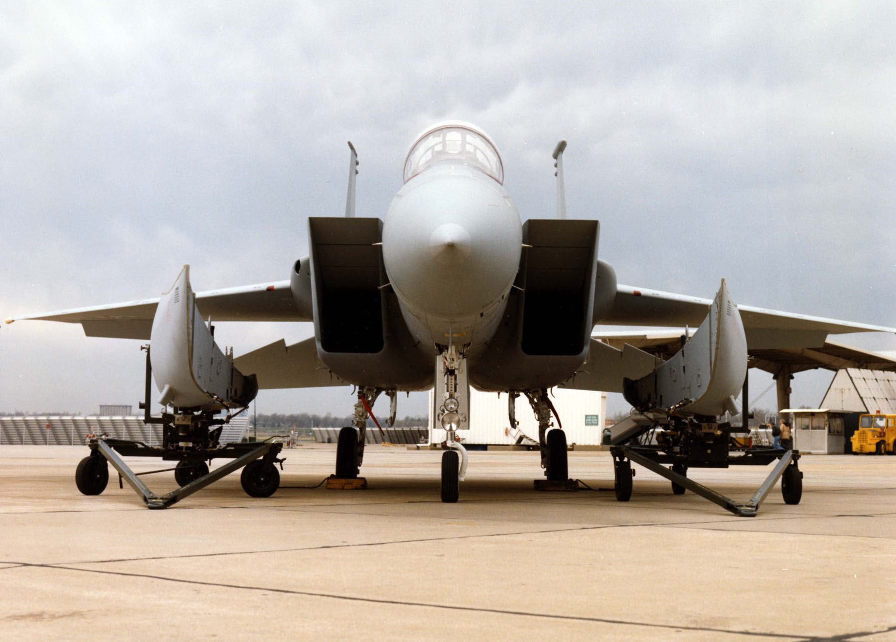 Front view of McDonnell Douglas F-15C with the conformal FAST PACK fuel tanks (on the trailers)